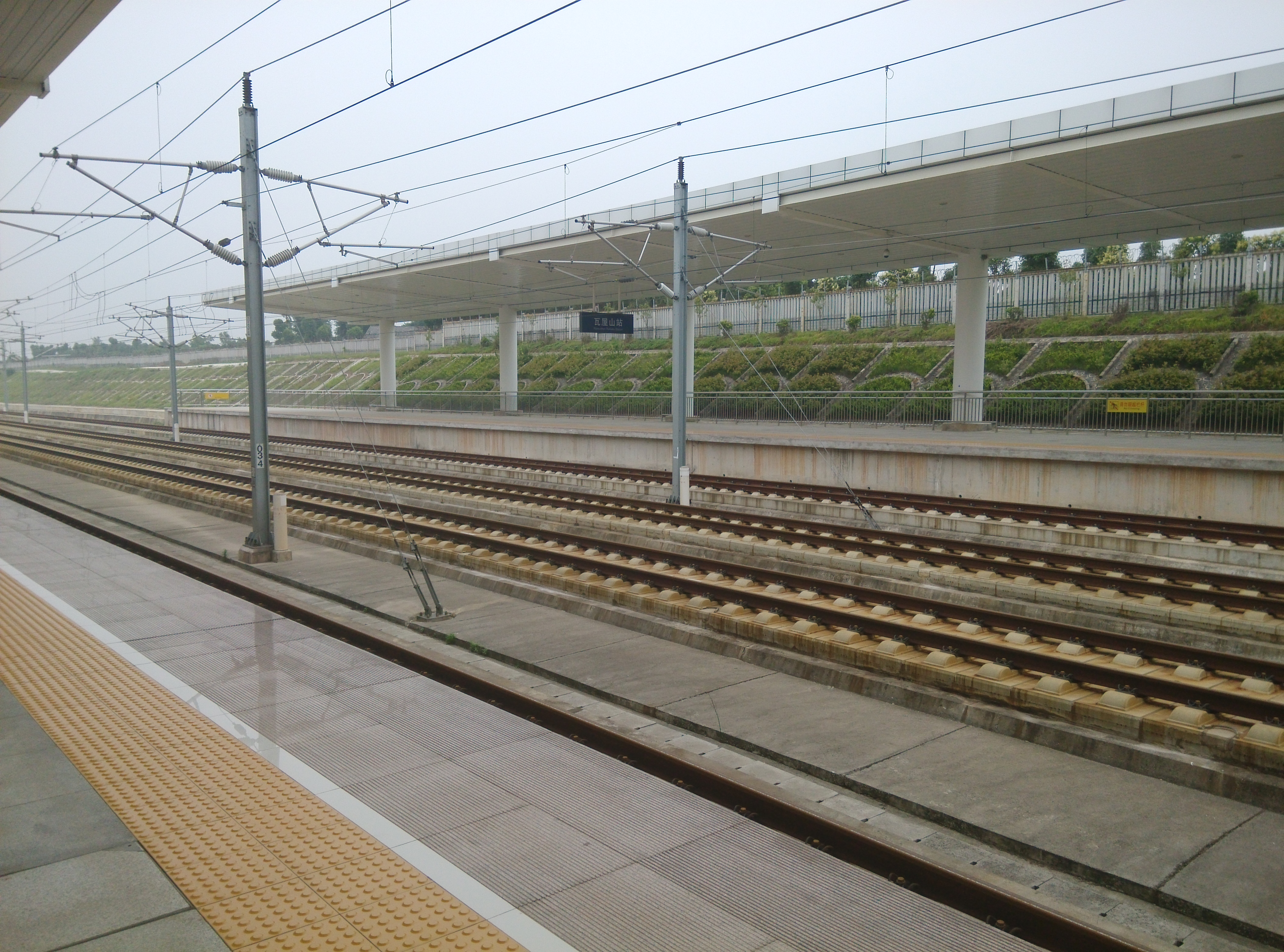 Wawushan Railway Station platform